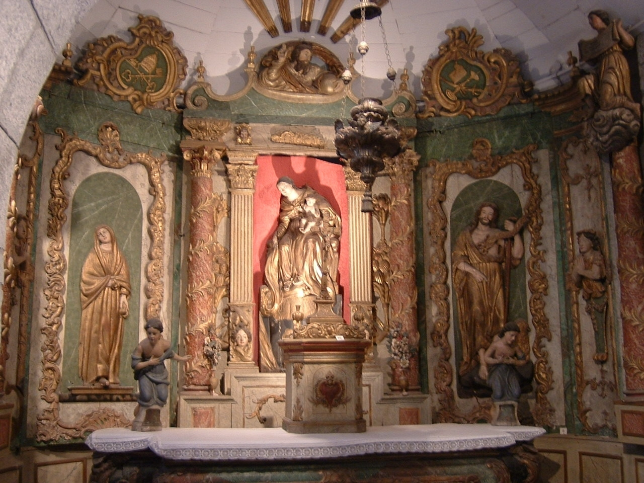 Lourdes : castle, Our Lady chapel, retable from the old church Saint-Pierre.